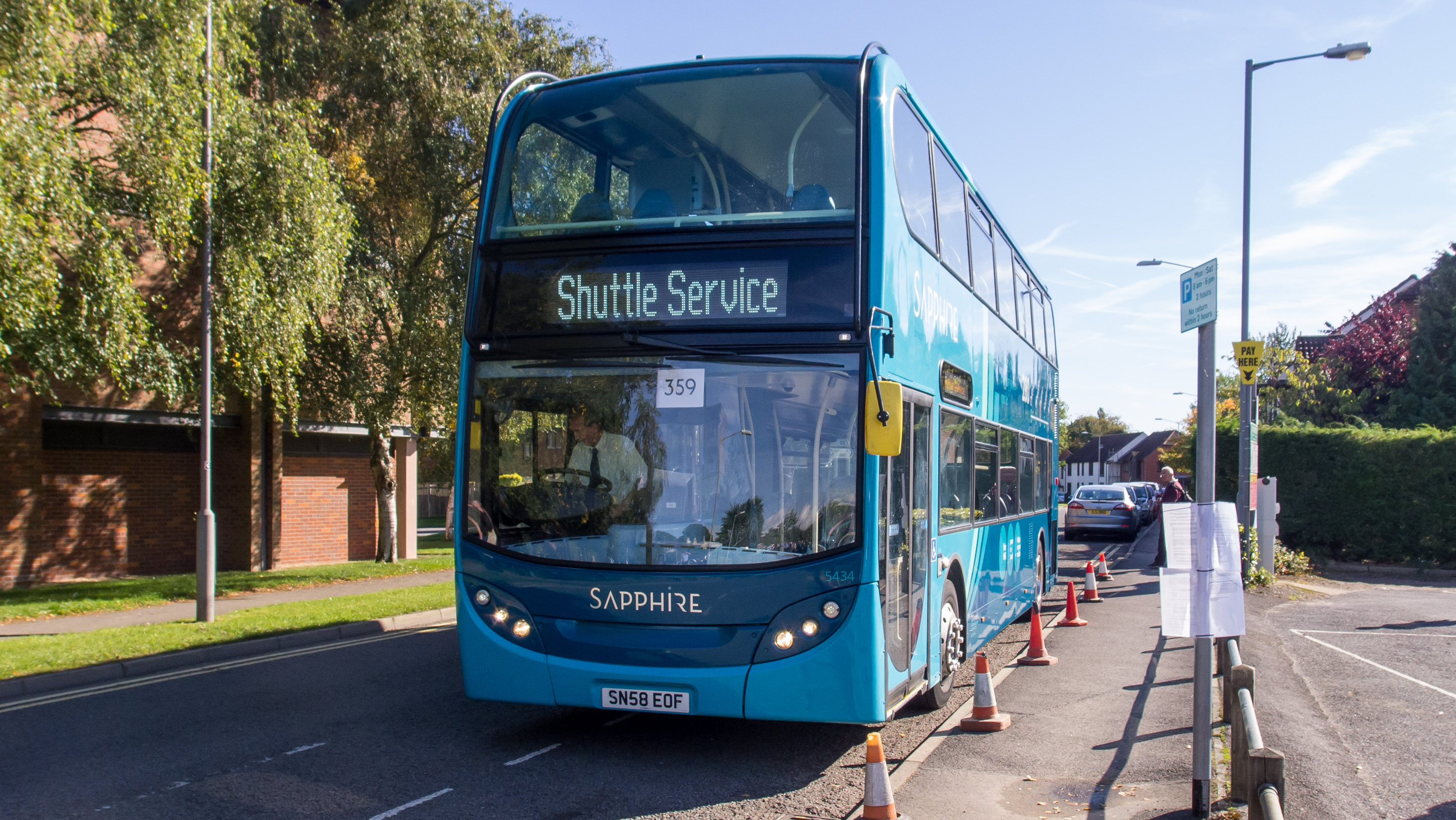 Arriva 5434 on route 359 at Amersham Running Day 2013